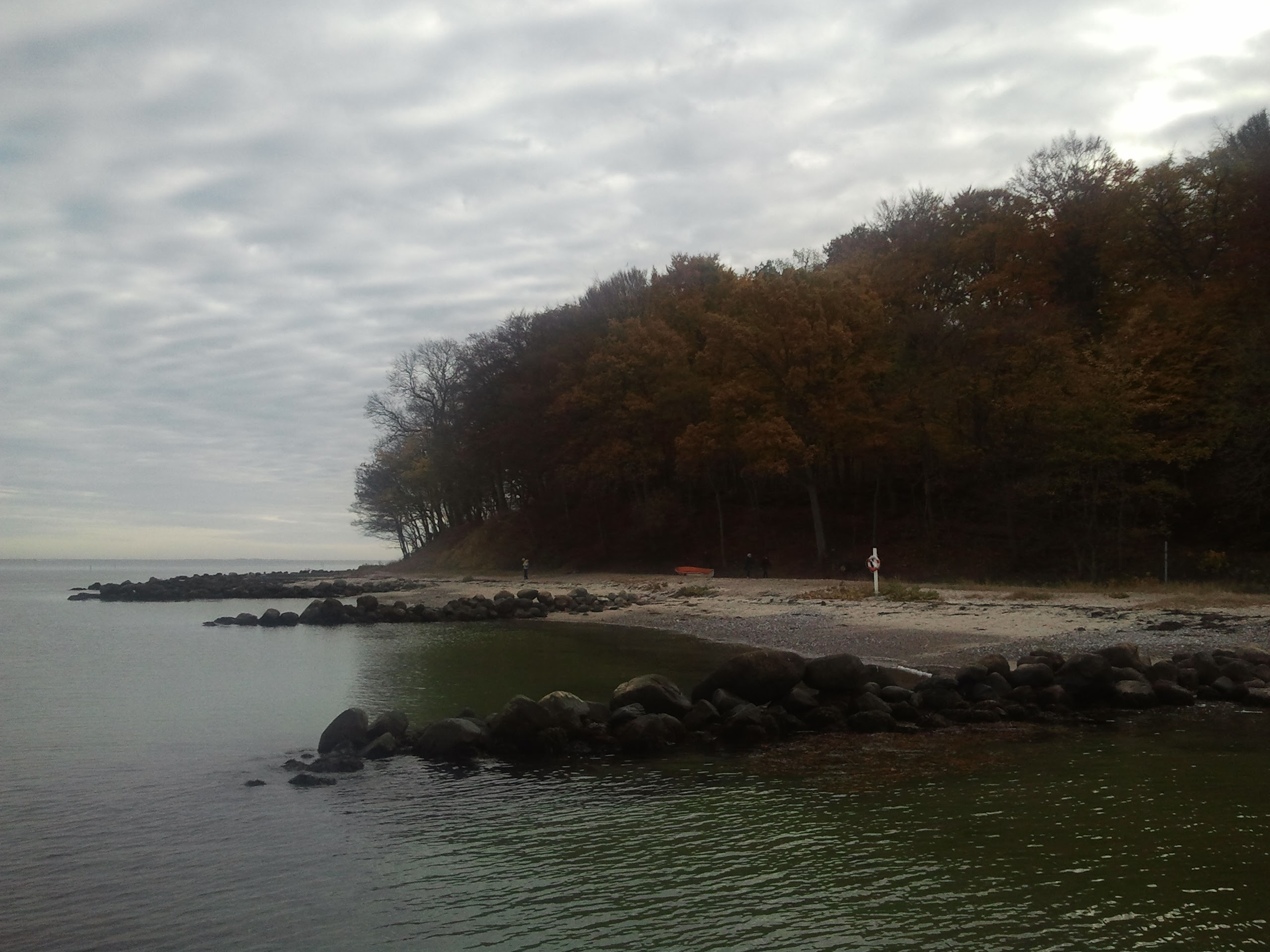 Ballehage Beach